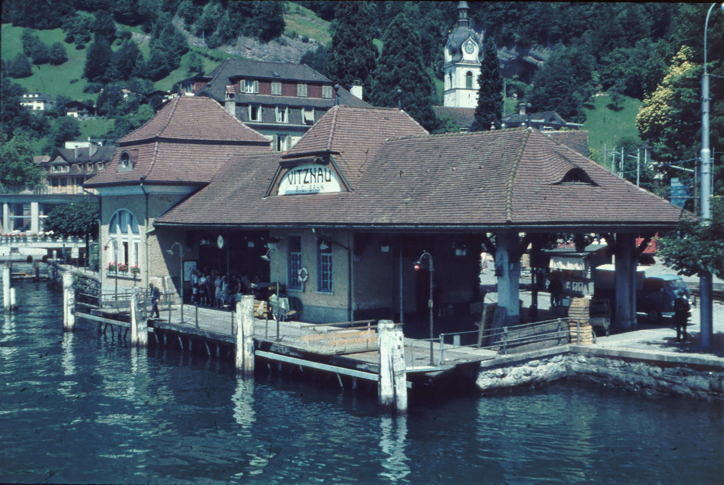 Vitznau train station 1966